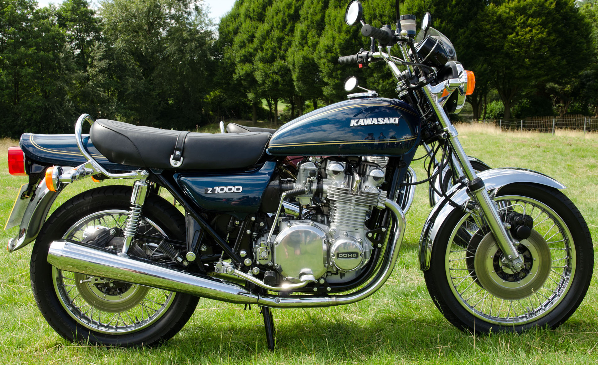 1977 Kawasaki Z1000 exhibited at Capesthorne Hall Classic Car Show